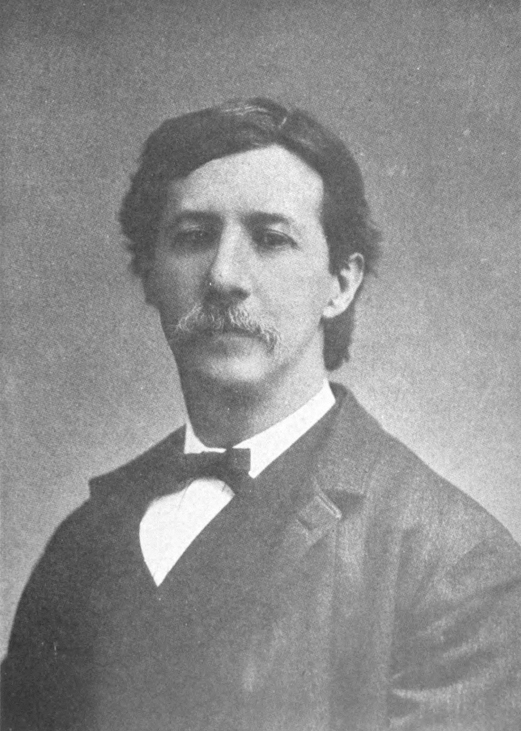 Augustin Daly